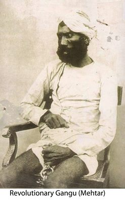 Gangu Baba,a dalit freedom fighter of 1857 Mutiny against Britishers in India